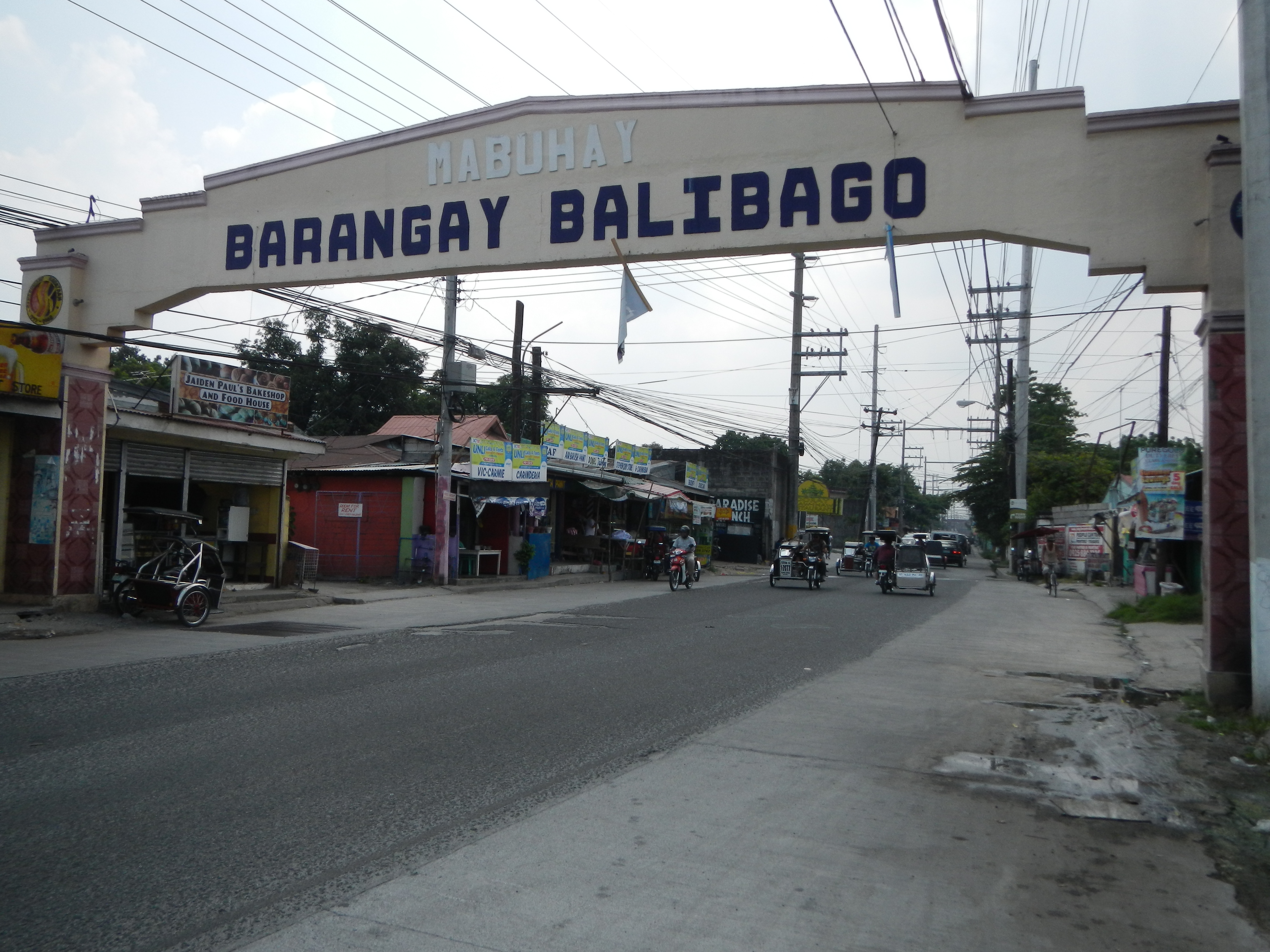 Welcome Arch of Barangay Balibago of Angeles City, Pampanga Province, the Philippines Manila North Road KM 85 +399 or MacArthur Highway adjacent U.S. Clark Air Base - is located in neighbor Barangay Pulung Maragul, Angeles City, Pampanga.